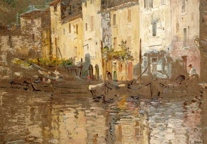 Martigues